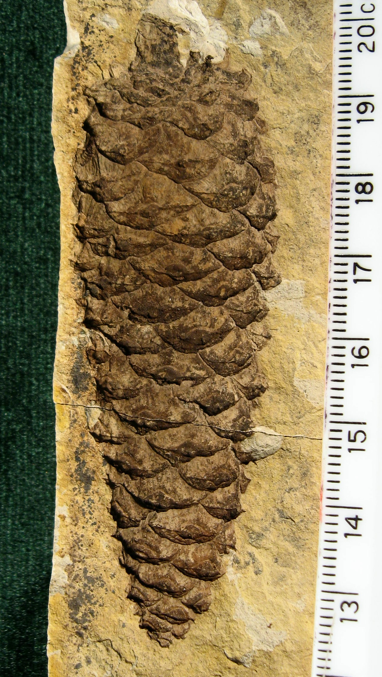 A ~8cm fossil Pinus species cone. Dorsal umbo indicates a species in subgenus Pinus. ~49.5 million years old. Early Ypresian, Klondike Mountain Formation, Republic, Ferry County, Washington, USA. Stonerose Interpretive Center specimen.